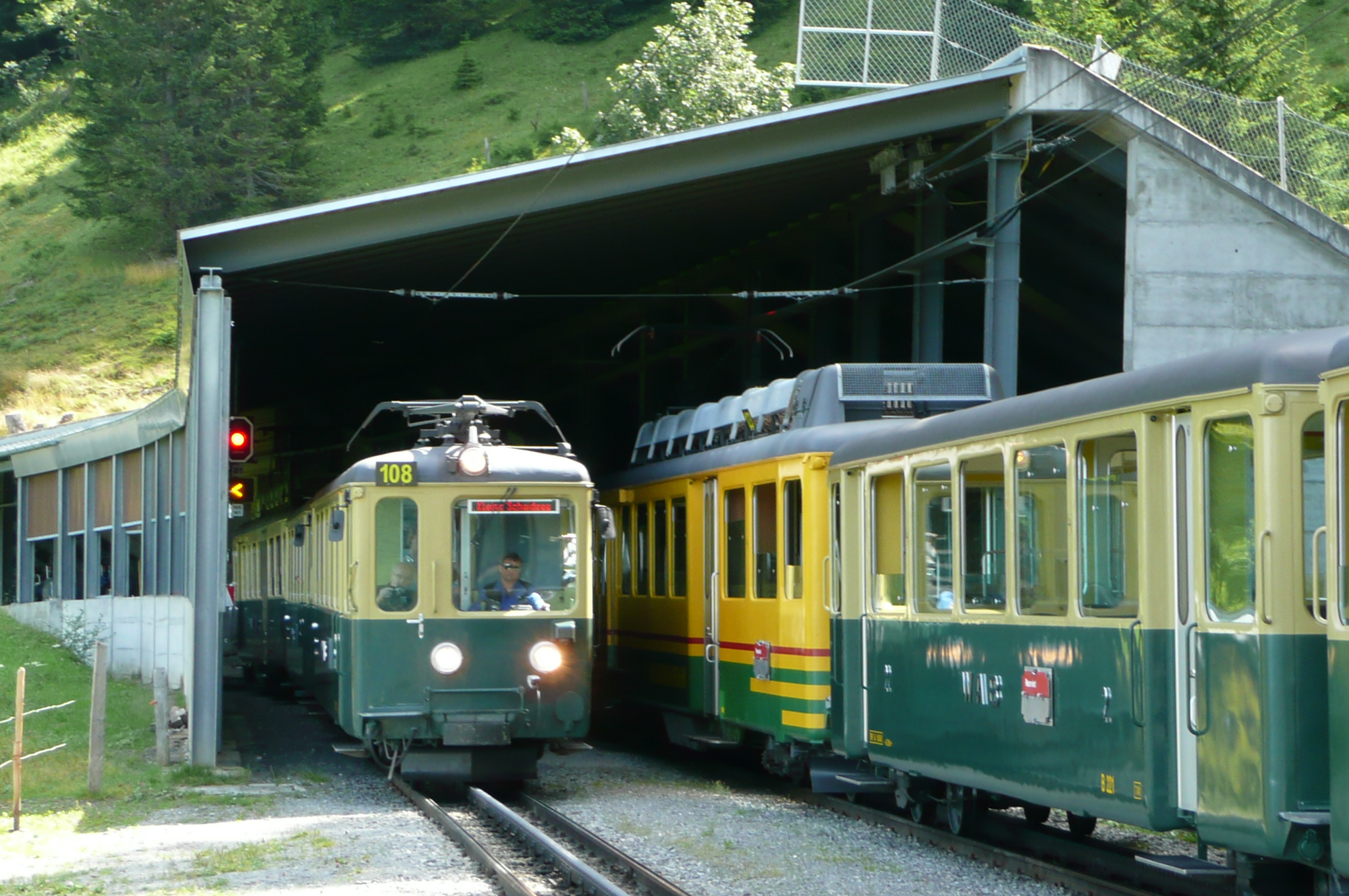 Wengernalp rack railway stop and passing point Allmend avalanche gallery 2 shuttle trains line Lauterbrunnen-Kleine Scheidegg – 2009-08-05